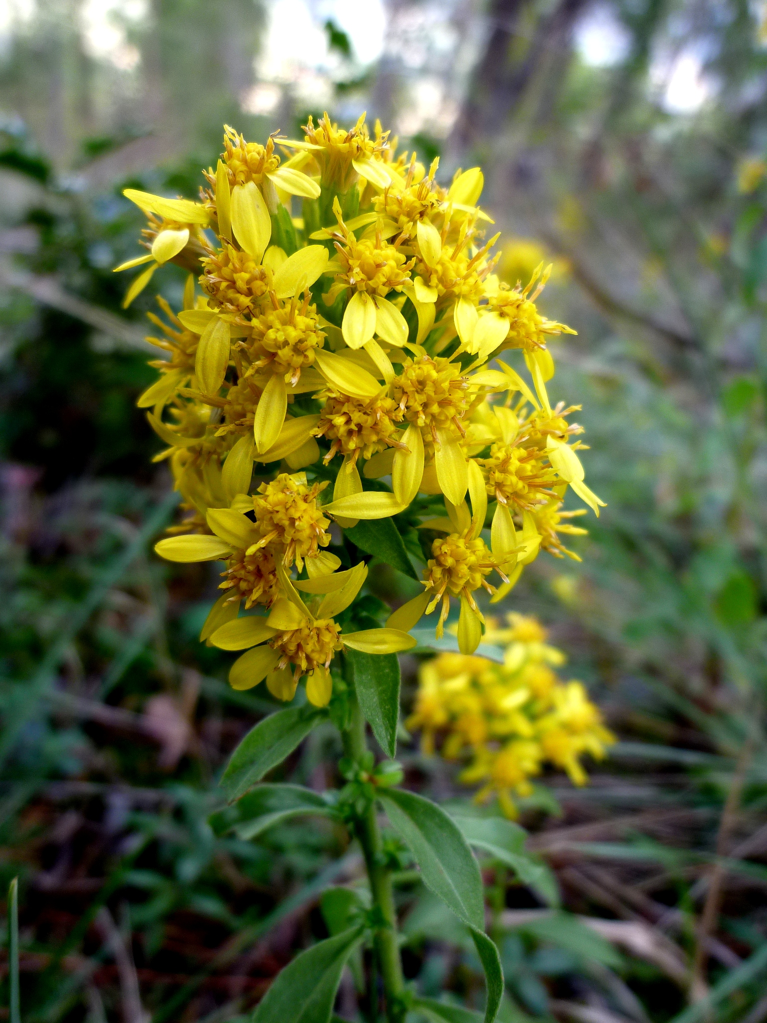 Inula viscosa. In Lladurs (Solsonès-Catalunya). To 1.040 m. altitude